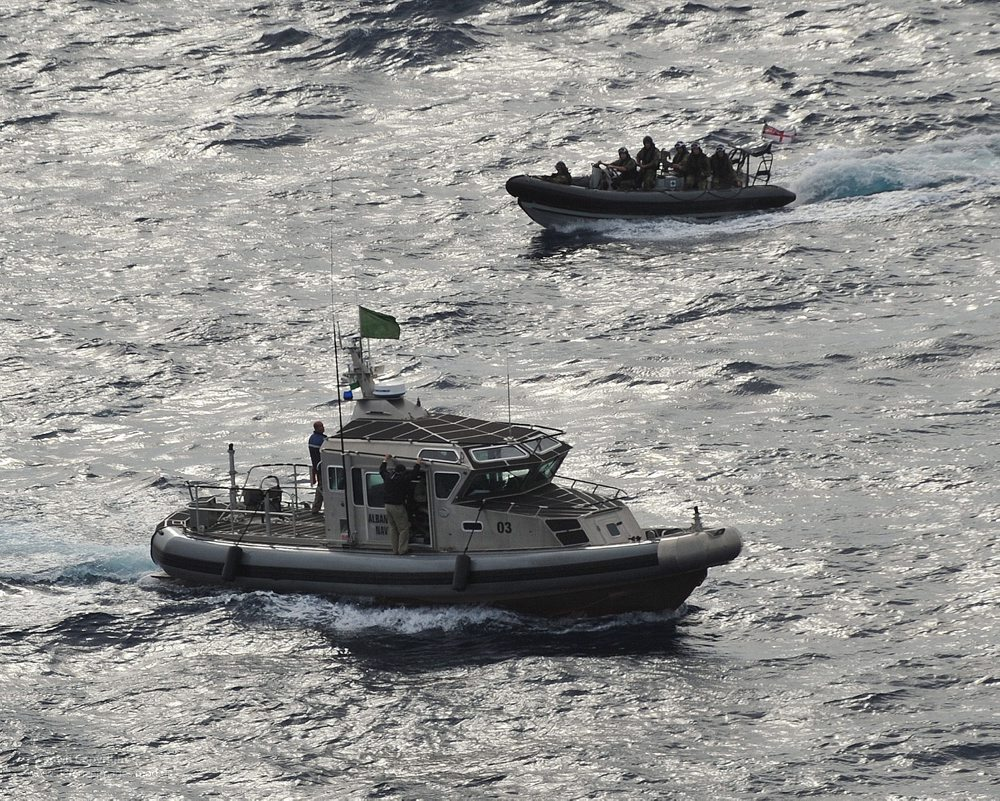 A Rigid Inflatable Boat (top) from HMS Illustrious exercises with an Albanian Naval Forces 44' Archangel Patrol Boat in the Adriatic Sea. HMS Illustrious was operating off the coast of Albania conducting board exercises with fellow NATO member Albania. Members of the ships boarding party boarded the patrol boat from the Albanian Navy which was playing the part of a suspect vessel. Supporting the exercise was a Merlin helicopter from 814 Naval Air Squadron which hovered overhead providing top cover to the boarding teams. Boarding operations are regularly practised by Royal Navy ships as they can be called upon to do this at any time, anywhere in the world. HMS Illustrious is taking part in Cougar, a three month deployment to the Mediterranean as part of the United Kingdom’s Response Force Task Group, exercising with key allies. Exercises will include Corsican Lion, which will test the maritime element of the UK-French Joined Expeditionary Force, and Exercise Albanian Lion which will provide superb faculties for the Lead commando group to train with Albanian forces, consolidating our relationship. This image is available for high resolution download at subject to the terms and conditions of the Open Government License at Search for image number 45154611.jpg Photographer: LA(Phot) Dean Nixon Image 45154611.jpg from For latest news visit Follow us